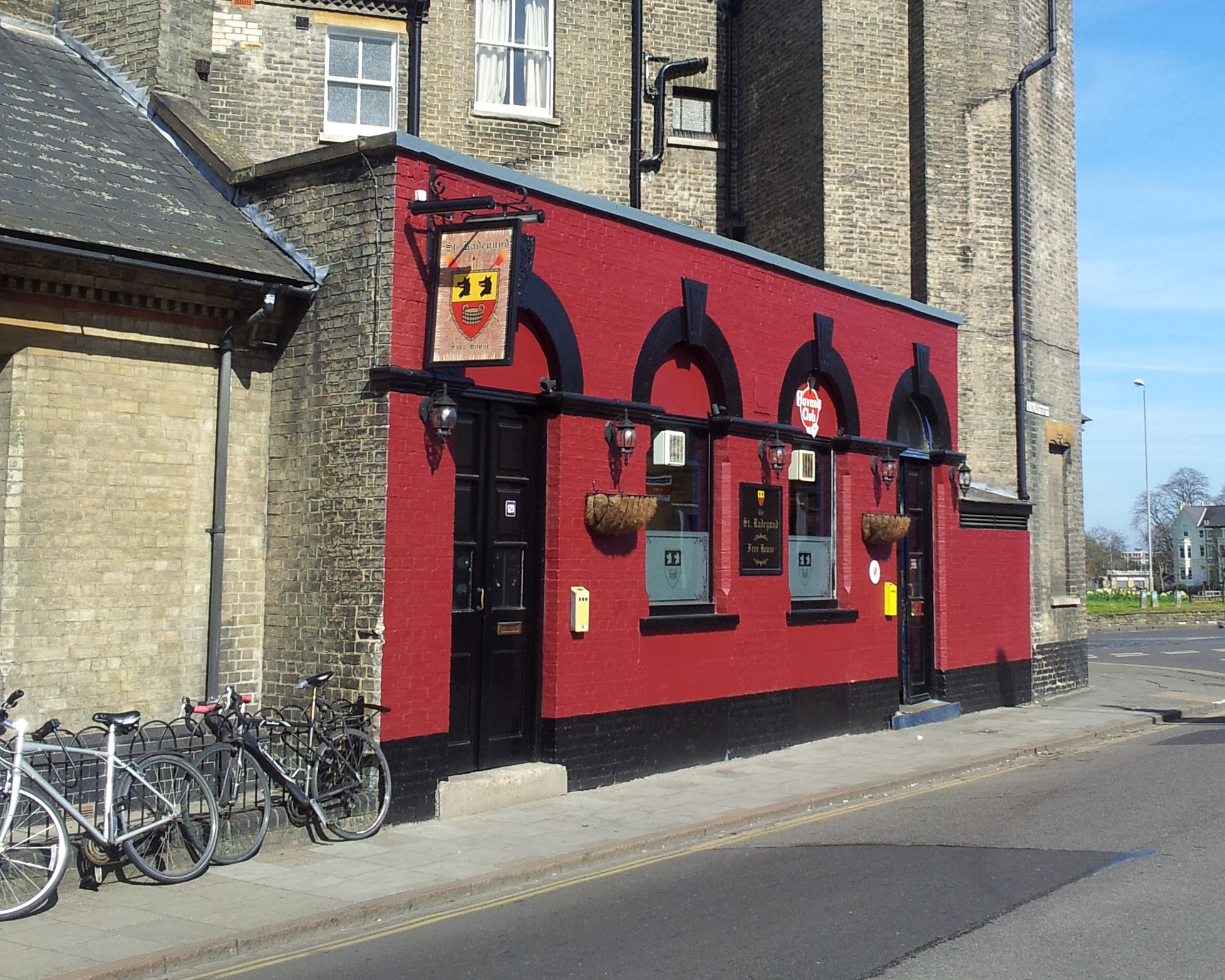 St Radegund pub, Cambridge, March 2012